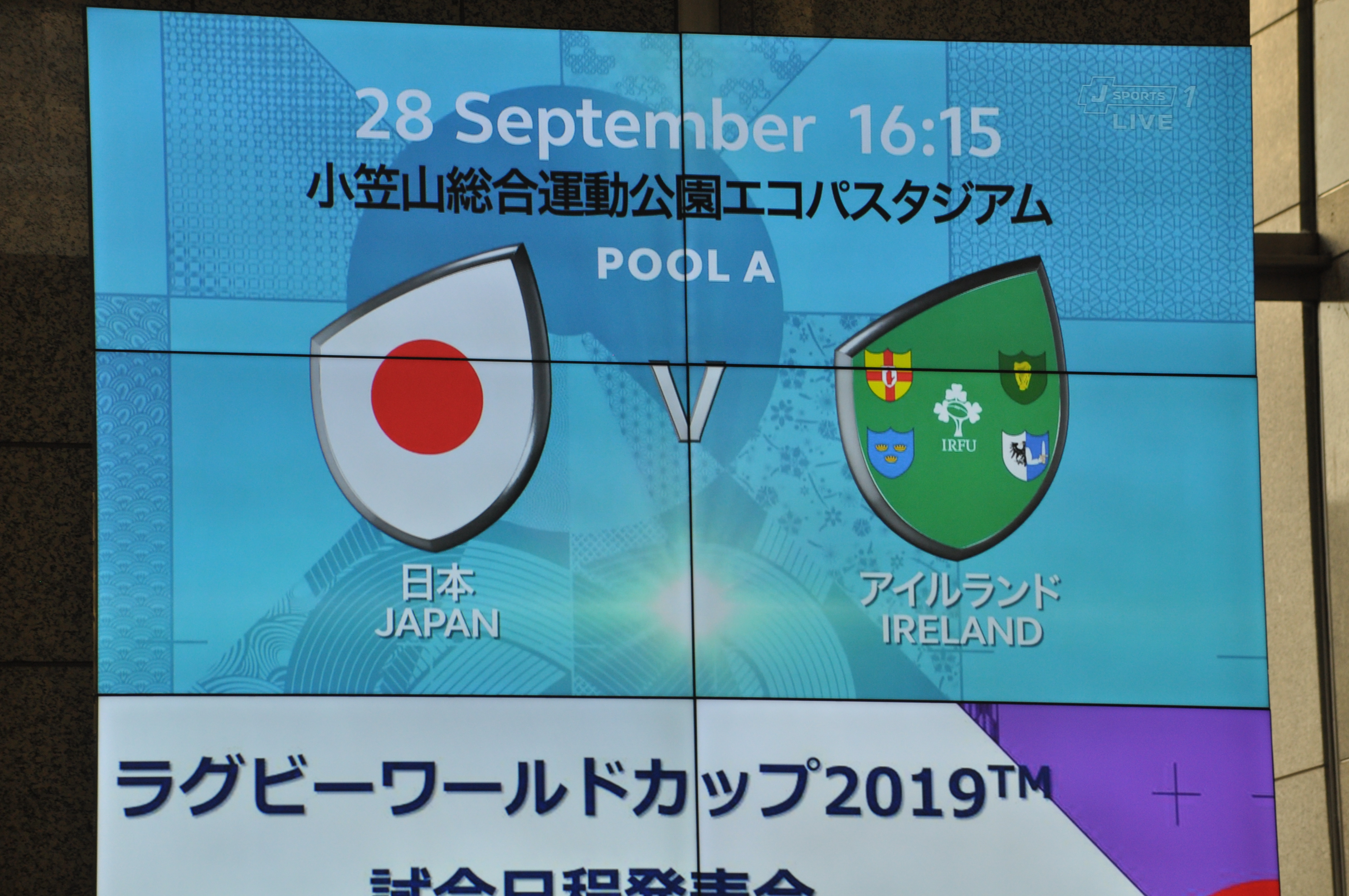 Rugby World Cup 2019